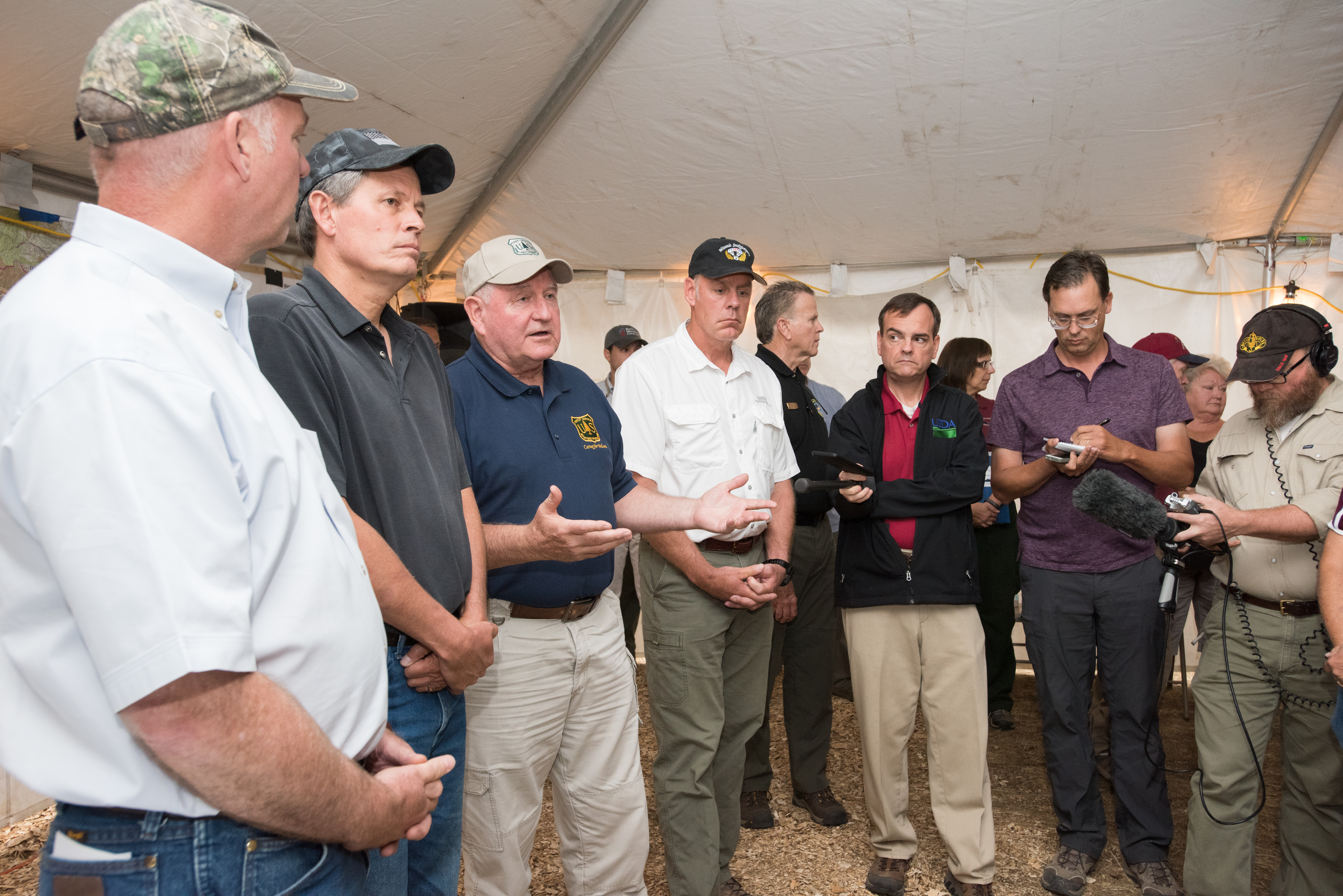 Lolo Incident Command Commander Greg Poncin and leaders for the many interagency and departmental partners briefs Secretary of Agriculture Sonny Perdue and Secretary of Interior Ryan Zinke, U.S. Senator Steve Daines and U.S. Congressman Greg Gianforte, on the Lolo Peak fire to include, strategy, tactics and implementation on actions taken, and the local impacts to communities, in Montana, on August 24, 2017, near Missoula, MT. The Secretaries traveled to Montana for a first hand look at a situation briefing of the wildland fires in the Pacific Northwest and Northern Rockies. USDA Photo by Lance Cheung.